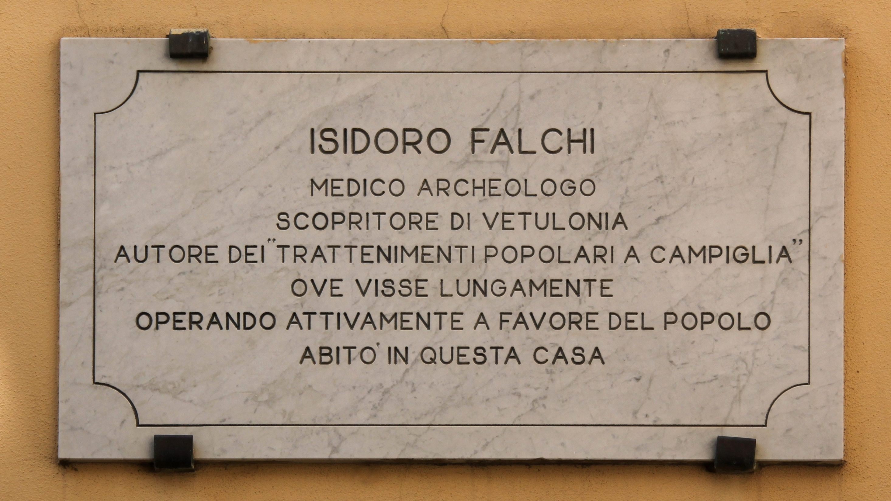 Campiglia Marittima (Via Roma 12): Plaque at Isidoro Falchi's residential building (1862–1871).